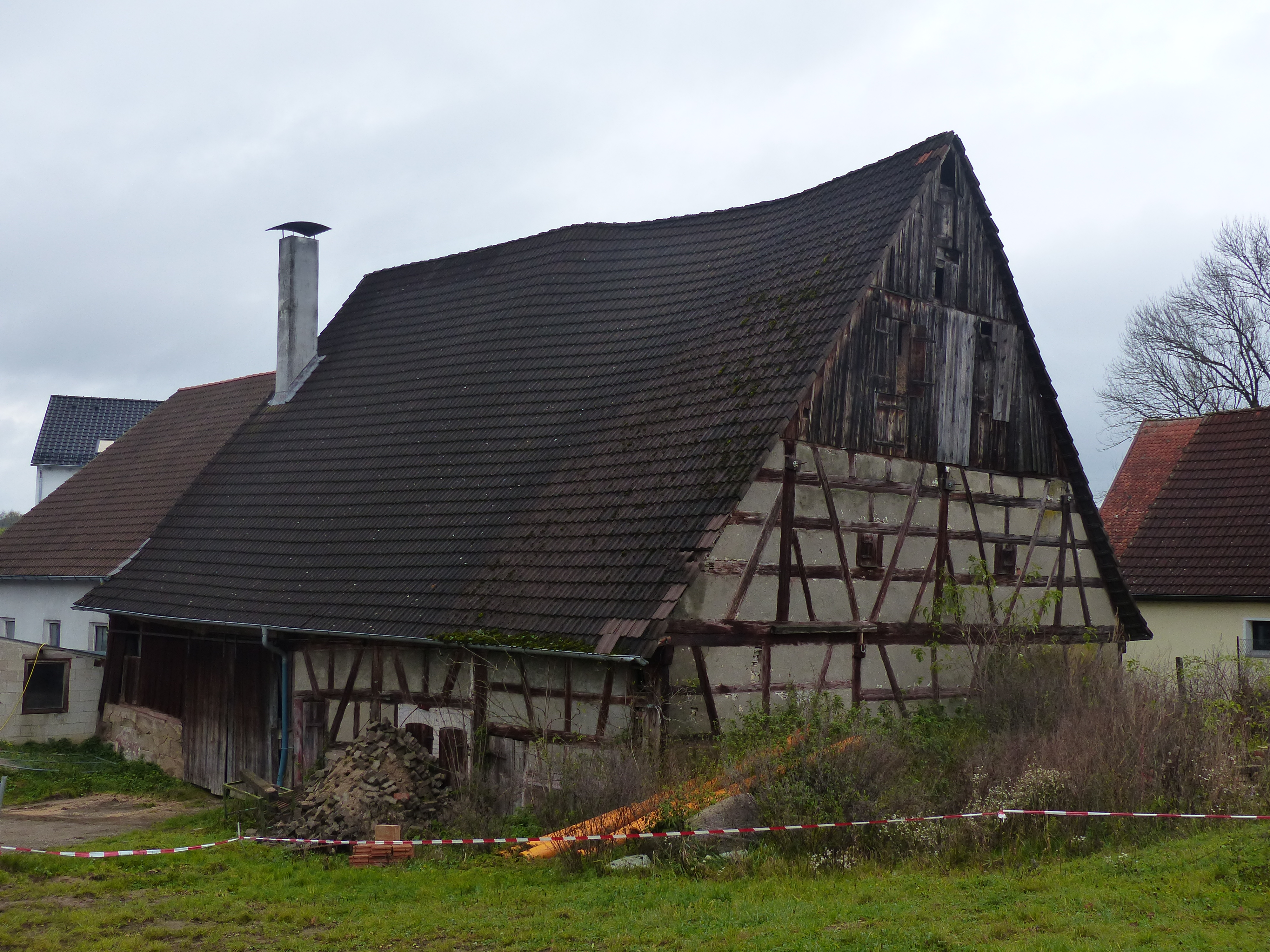 A farmhouse in the village Winn, a part of the municipality of Leinburg. The building was demolished in 2018.